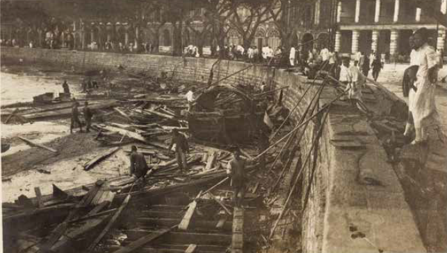 Damage of 1927 August Typhoon at Macau.